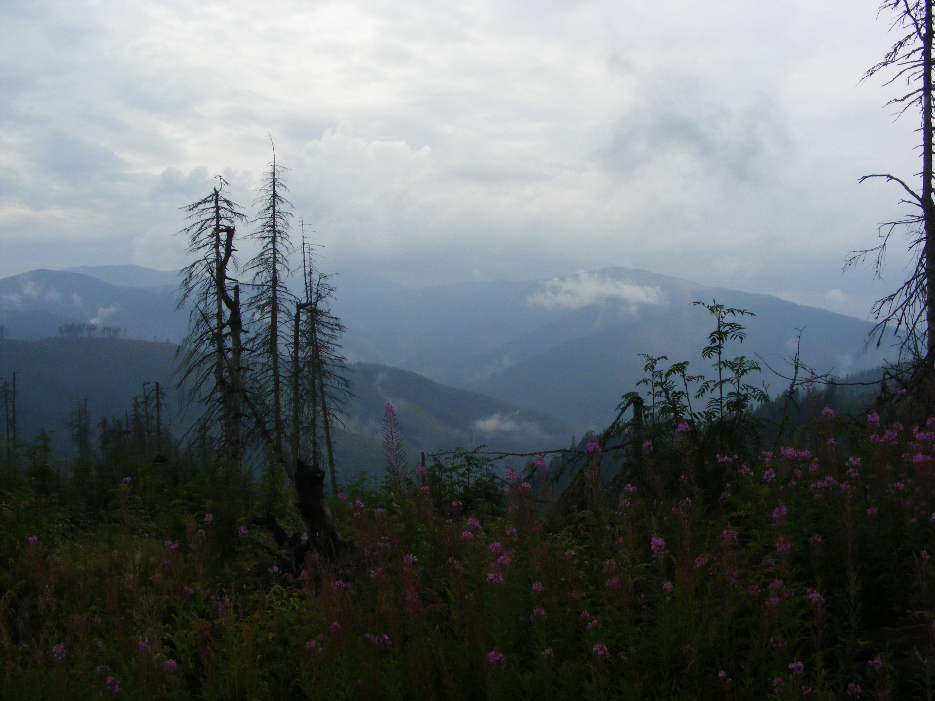 Nizke Tatry: hiking the main ridge in the rain - Bacúšske sedlo